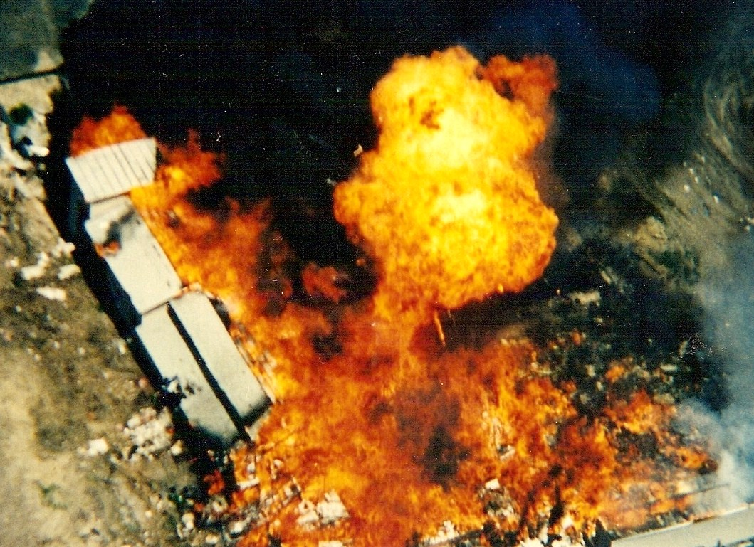 Fire ball from exploding propane tank.